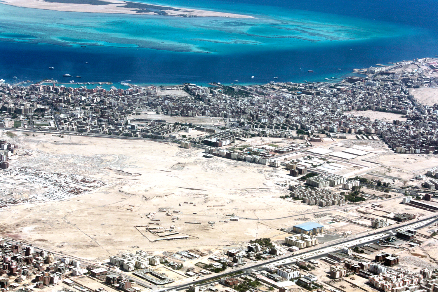 Hurgada, Egypt aerial photo